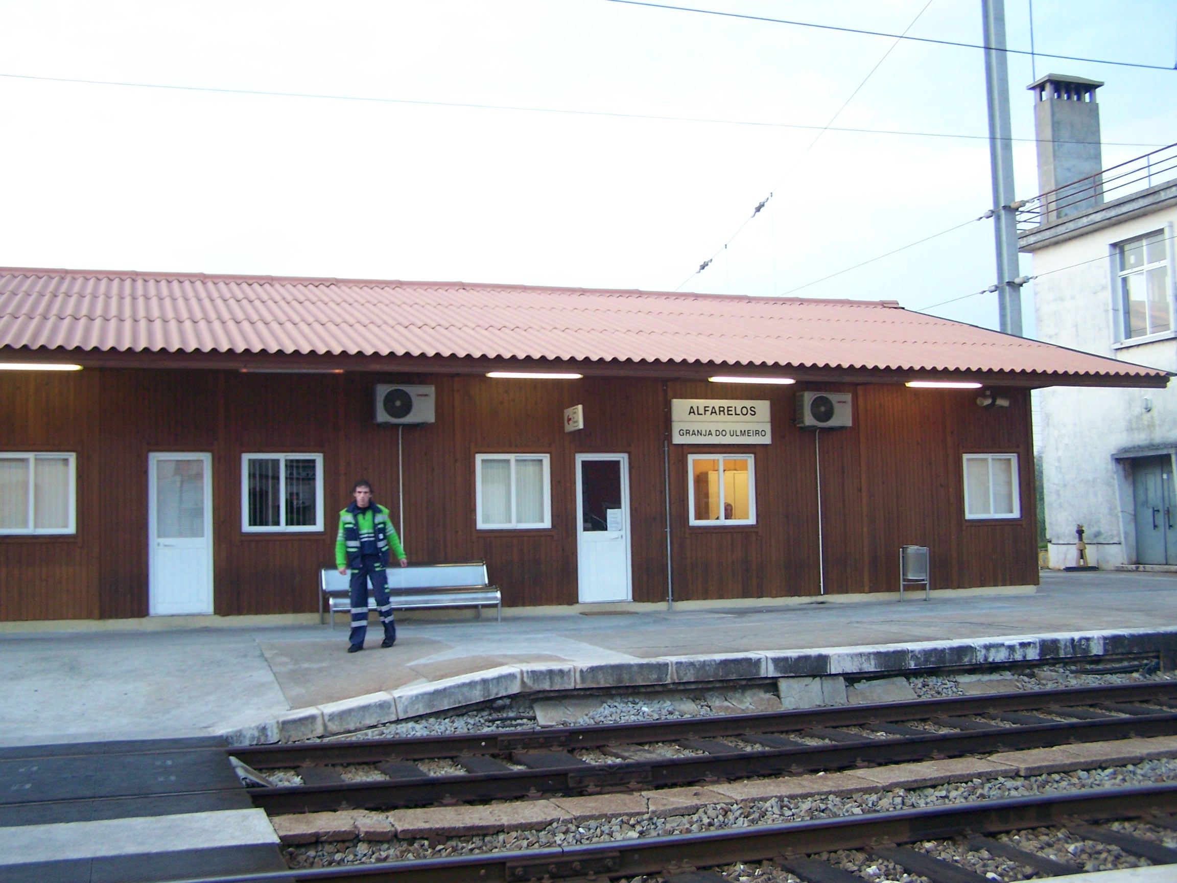 The train station of Alfarelos.